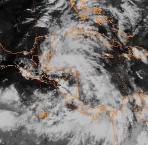 Tropical Depression Eight in 1994